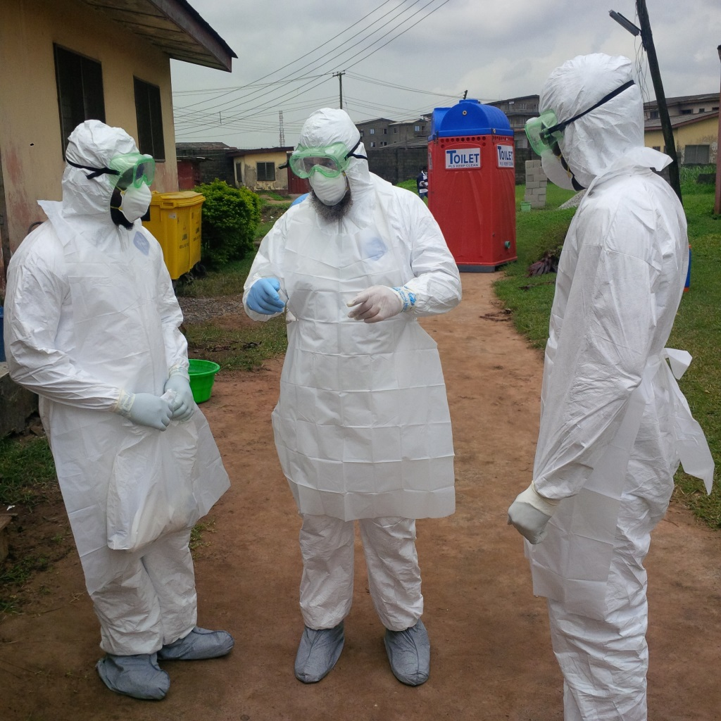 Nigerian physicians being trained by the World Health Organization (WHO) on how to put on and remove personal protective equipment (PPE) to treat Ebola patients. For more information on Ebola and what CDC is doing, please visit